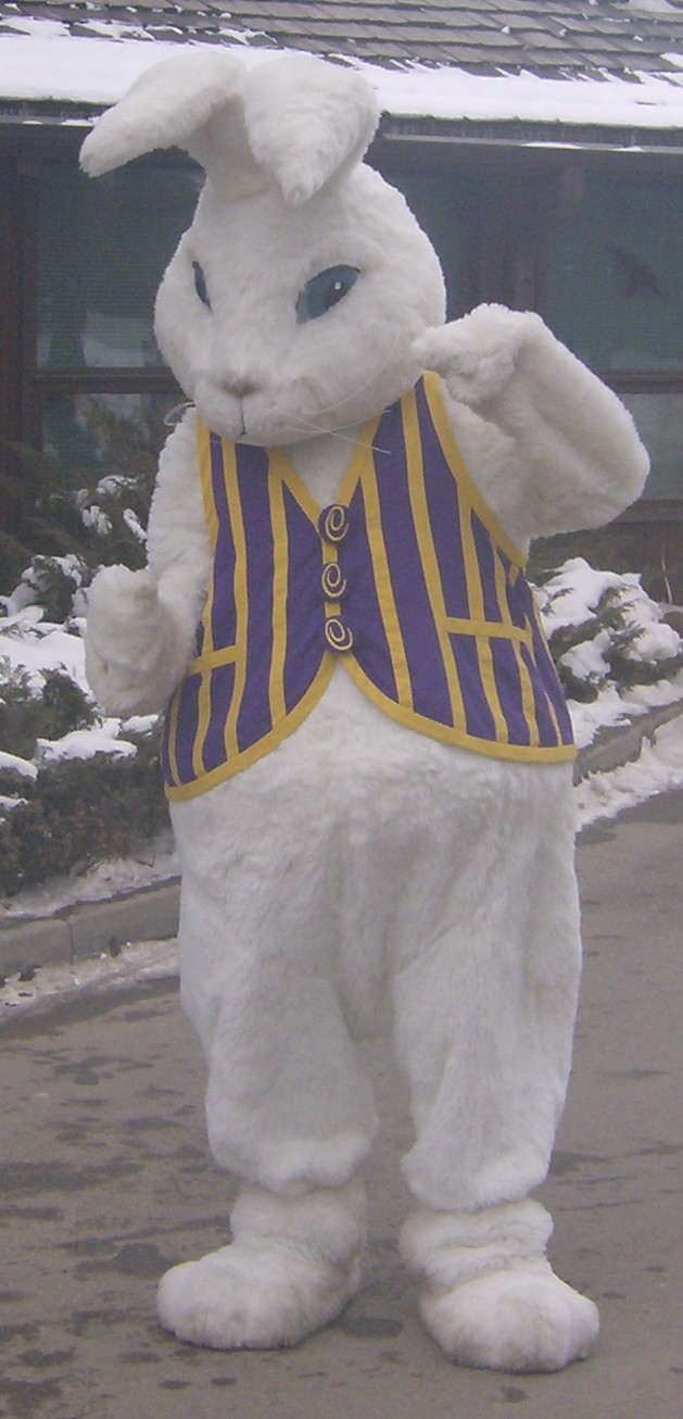 A person in an Easter Bunny costume at the "Easter Eggstravaganza" at the Calgary Zoo in Calgary, Alberta, Canada